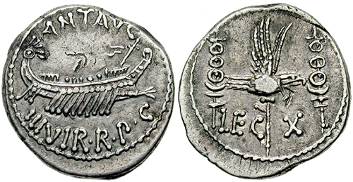 Marc Antony. 32-31 BC. AR Legionary Denarius (17mm, 3.61 gm). ANT AVG III VIR R P C, galley to right LEG X, aquila and two legionary standards. Crawford 544/24; CRI 361; RSC 38.Good VF, light banker's marks. Coin from CNG coins, through Wildwinds.